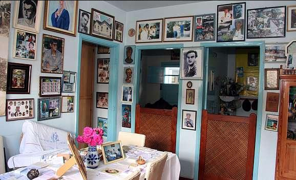 Chico Xavier last home